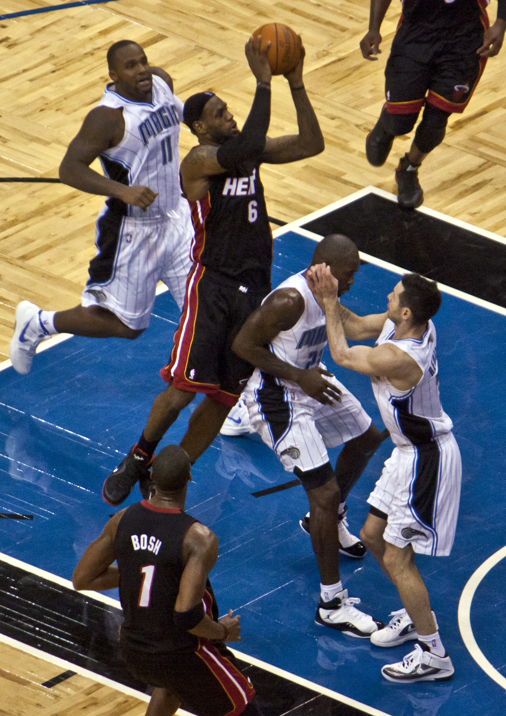 LeBron James and the Miami Heat facing the Orlando Magic in a 2011 Preseason game